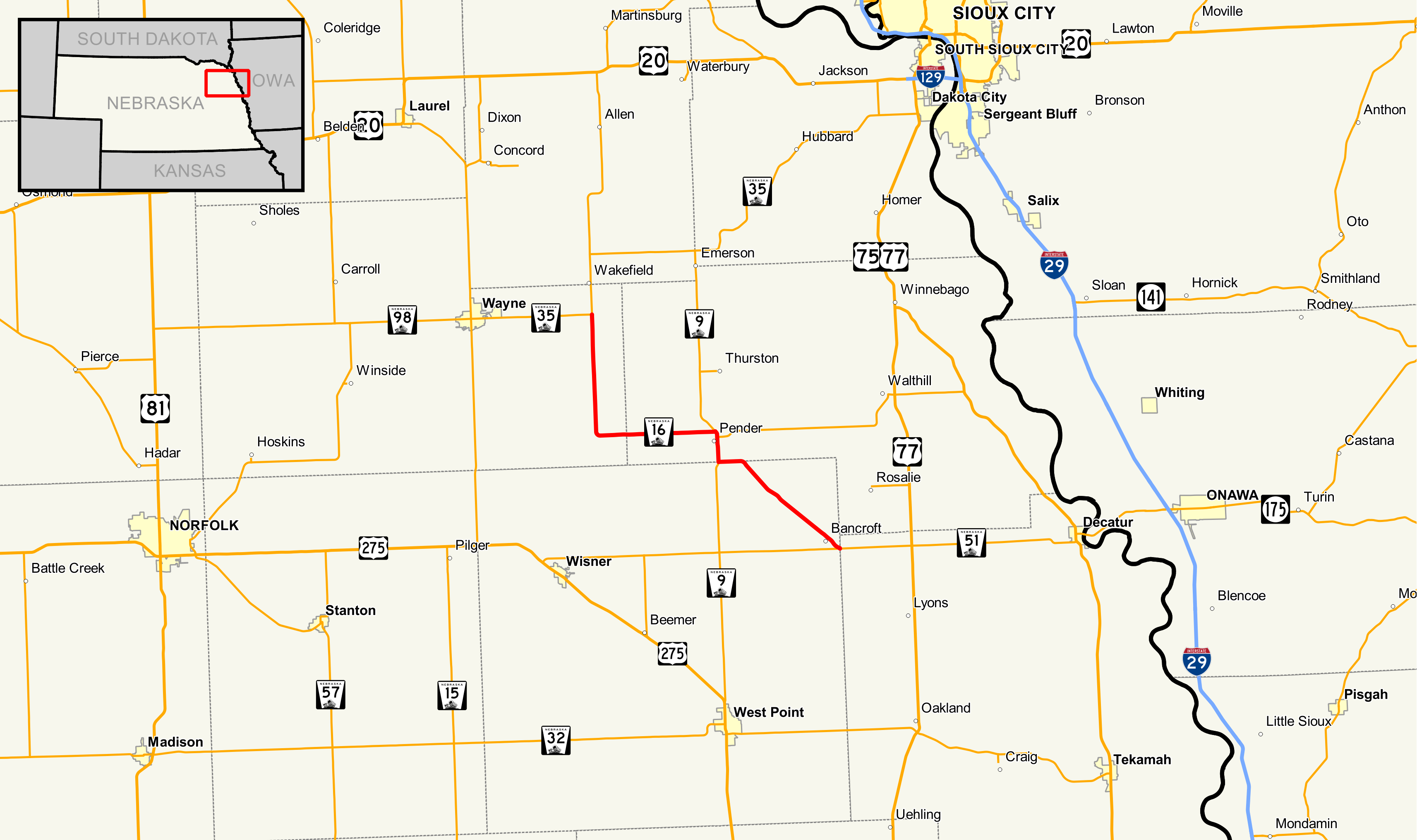 Map of Nebraska Highway 16 Data Sources: Nebraska Highways - - Dec 2016 Nebraska County Boundaries - - Dec 2016 Nebraska City Boundaries - - Dec 2016 This PNG graphic was created with QGIS